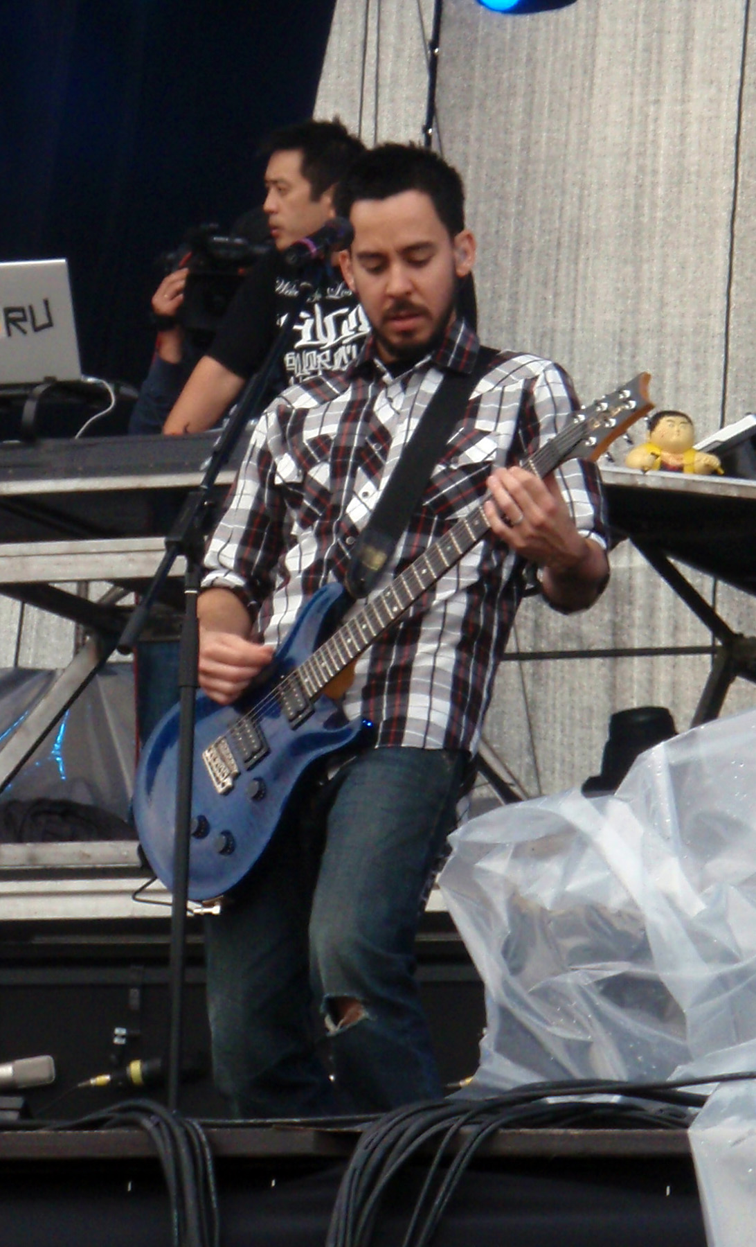 Mr. Hahn & Mike Shinoda from Linkin Park performing at Sonisphere Festival in Kirjurinluoto, Pori, Finland.